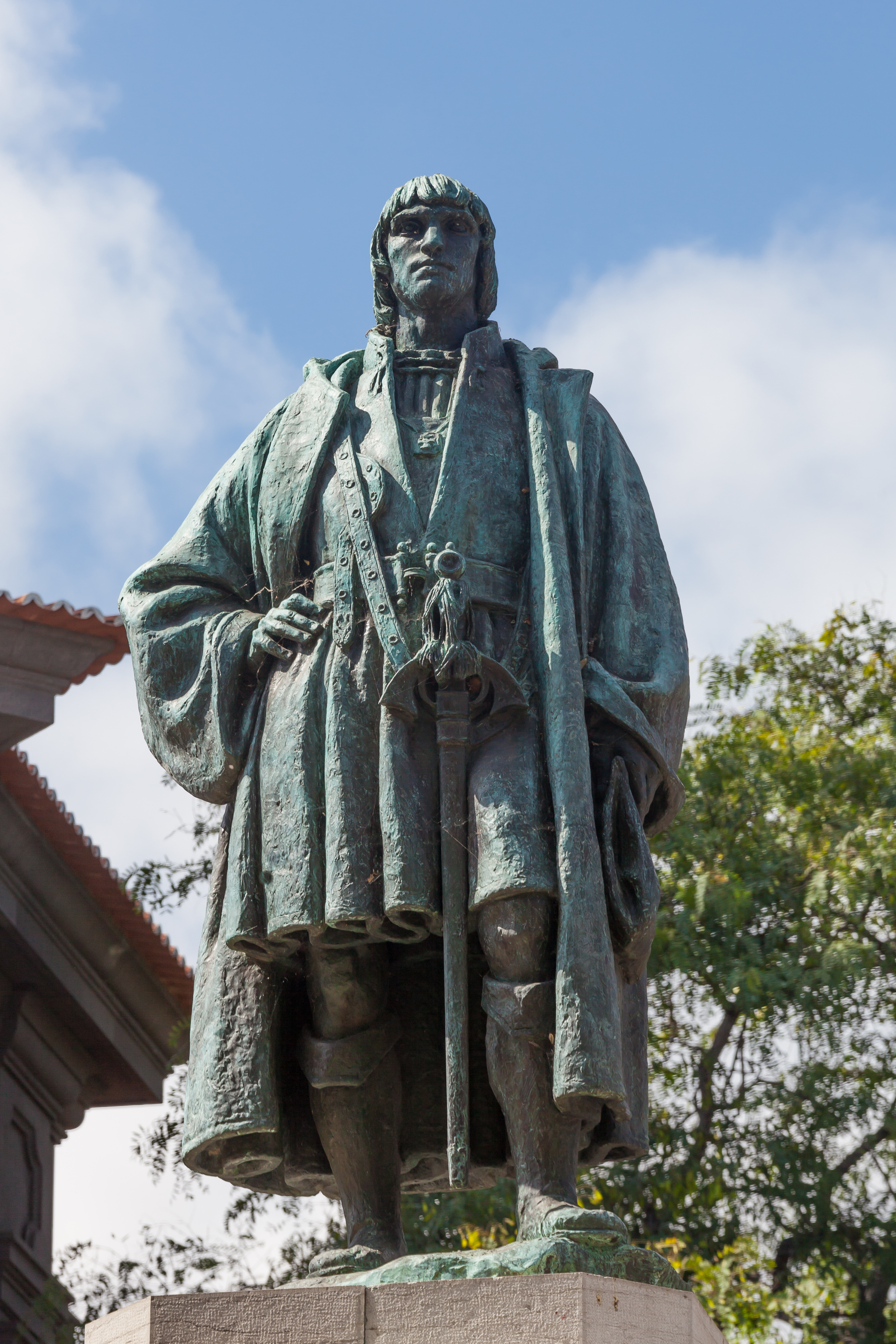 Statue of João Gonçalves Zarco. Funchal. Madeira. Portugal.